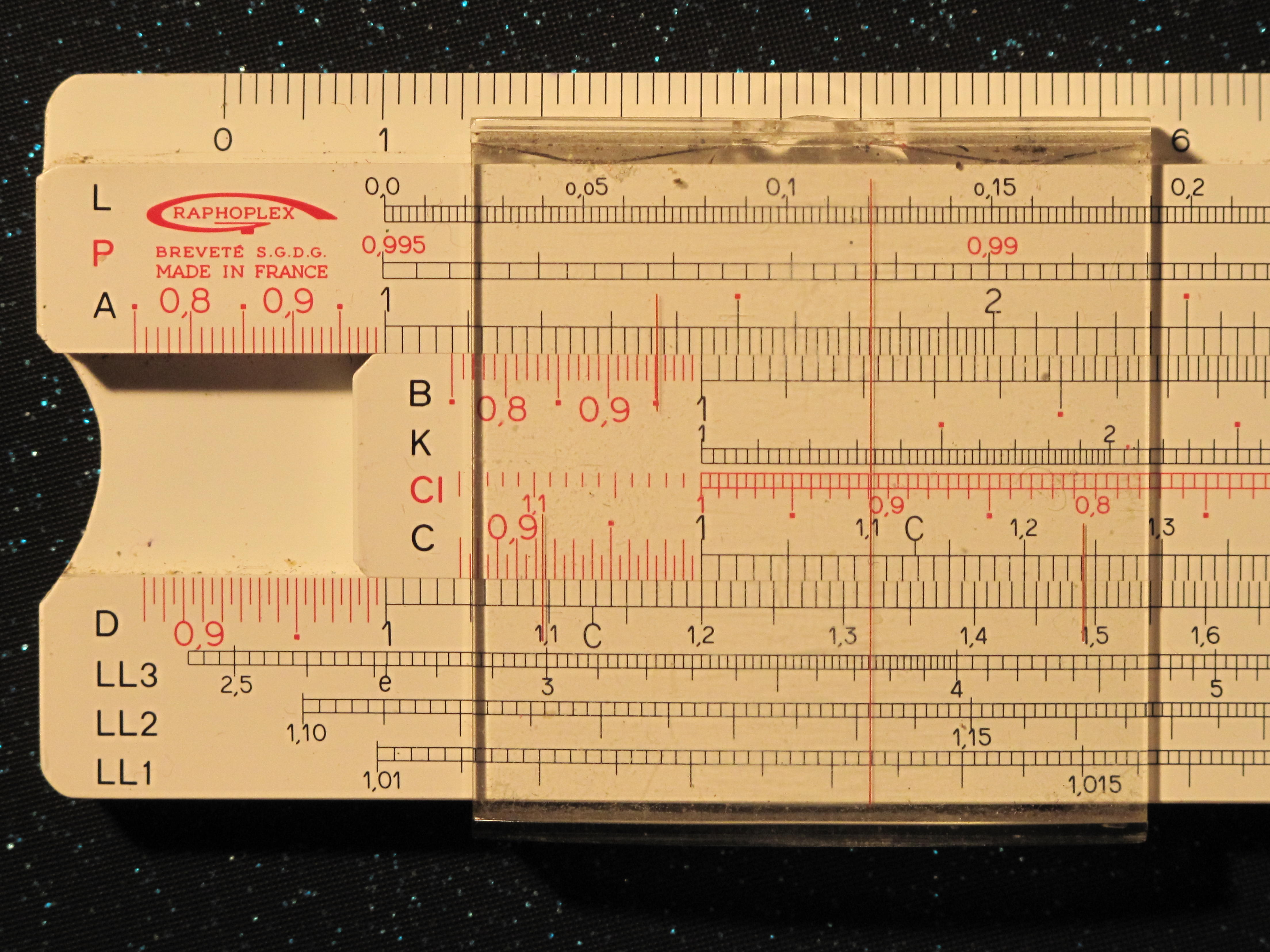 Slide rule in position to compute 1.2 * 1.1 = 1.32